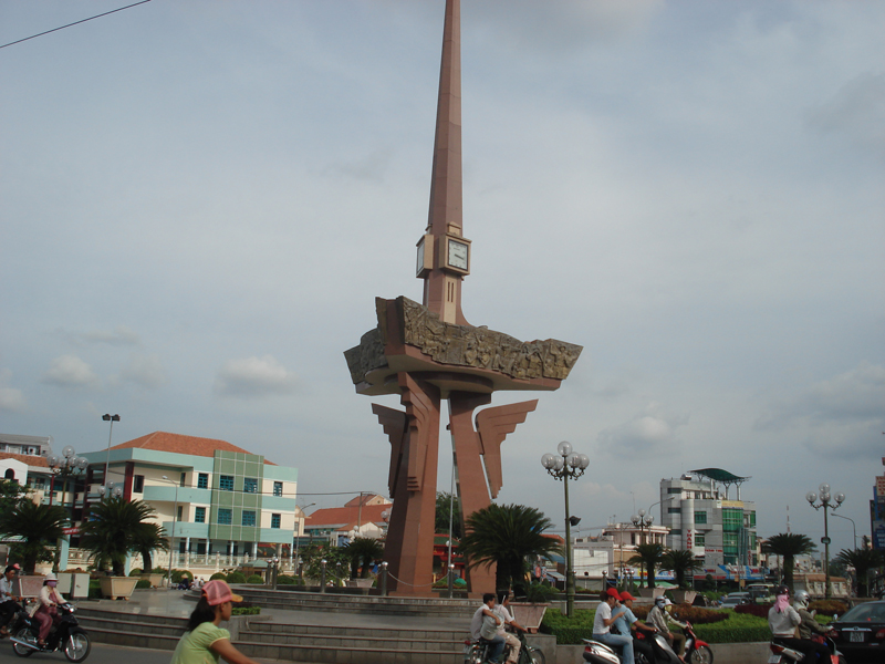 Thu Dau Mot Town,Binh Duong Province,Vietnam